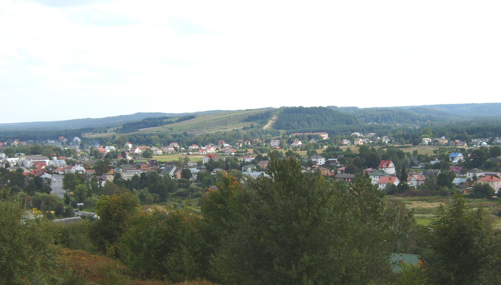 View to the Krasnobród town from higher quarry